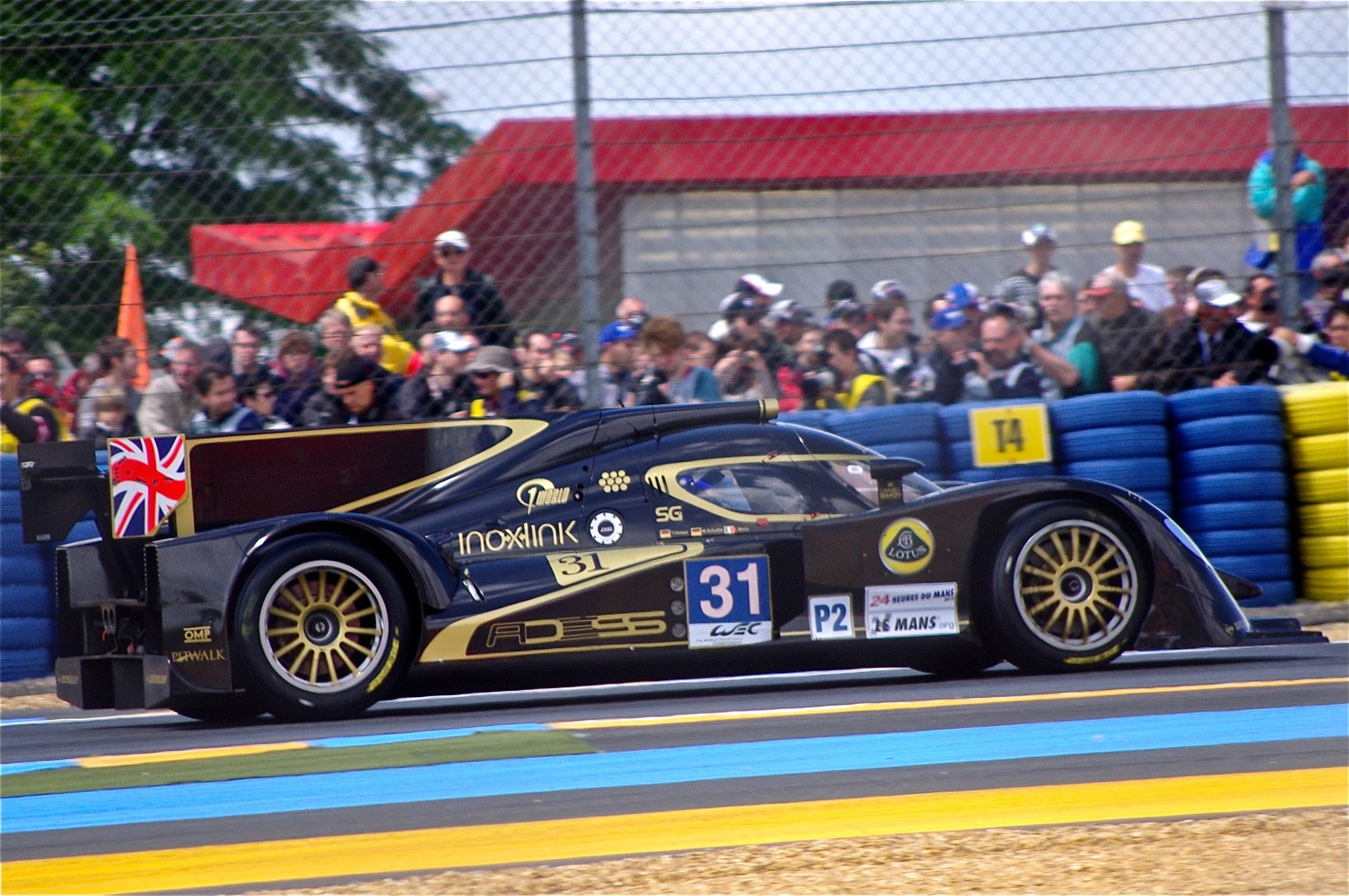 Lotus' Lola B12/80 Lotus Driven by Thomas Holzer, Luca Moro and Mirco Schultis At Le Mans 2012.